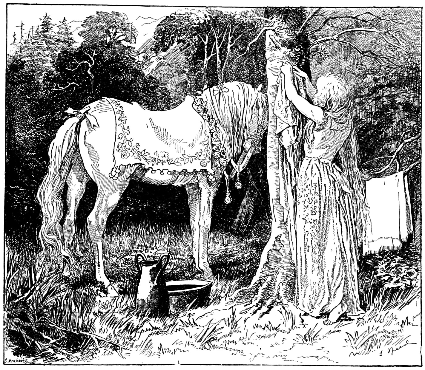 Illustration from "The Wonderful Birch" in The Red Fairy Book, 1890.